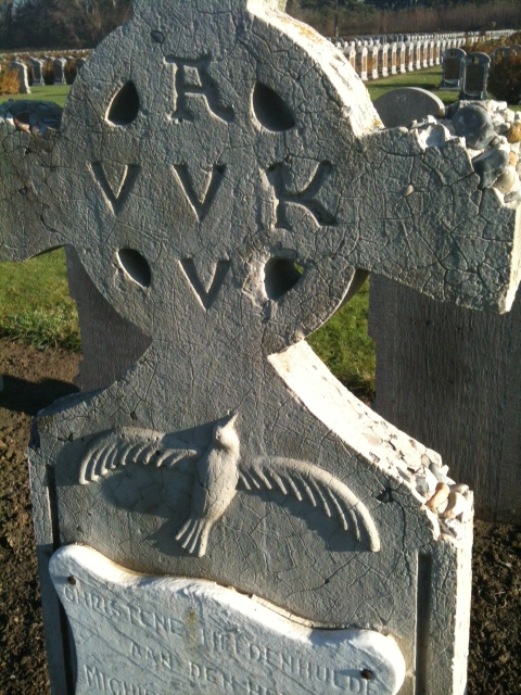 World War One Flemish nationalist gravestone, literally "a tribute to a hero". Inscription AVV VVK,meaning "everything for Flanders, Flanders for Christ". Mythical bird